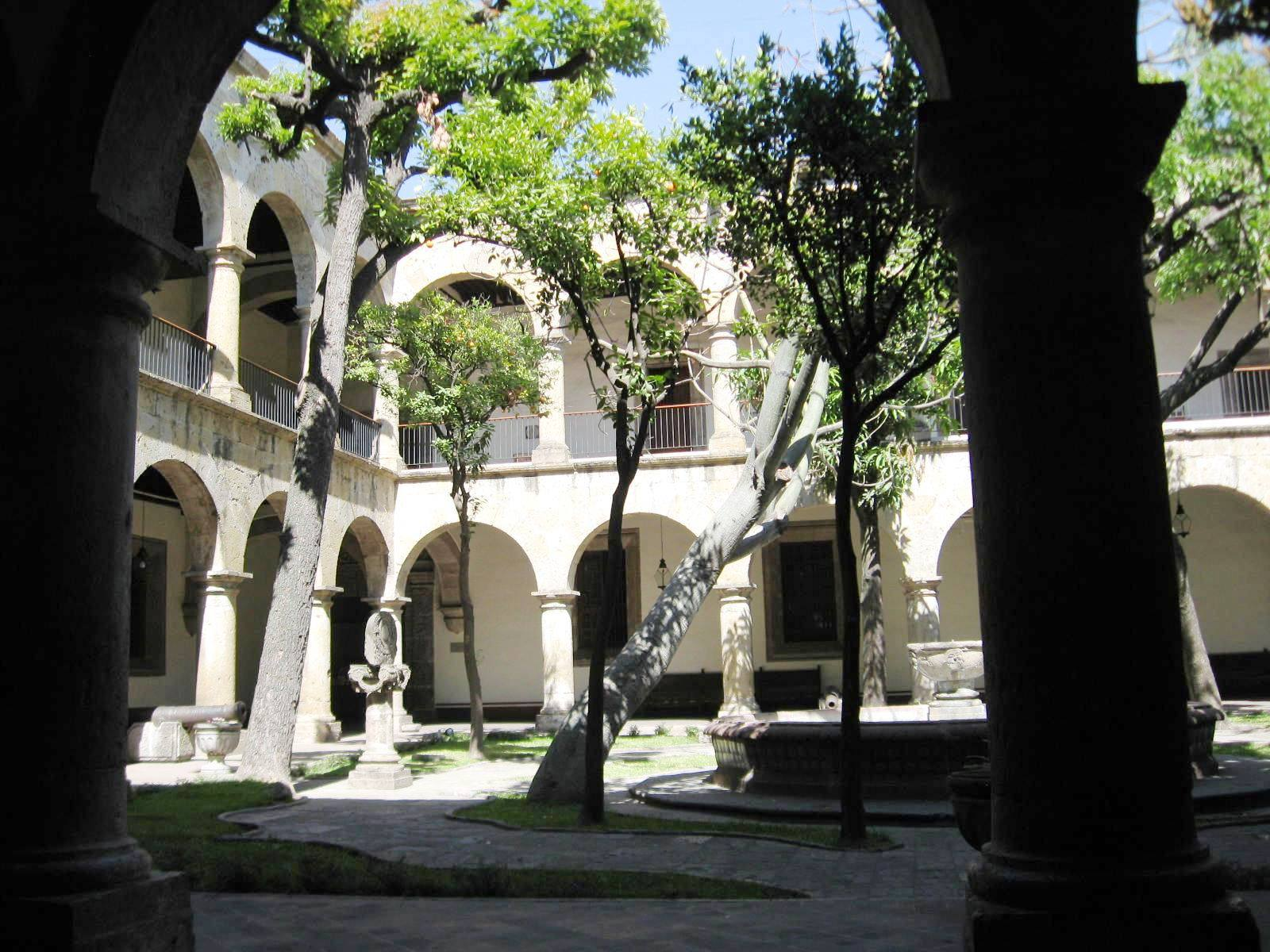 Patio area of the Regional Museum of Guadalajara in Guadalajara, Mexico